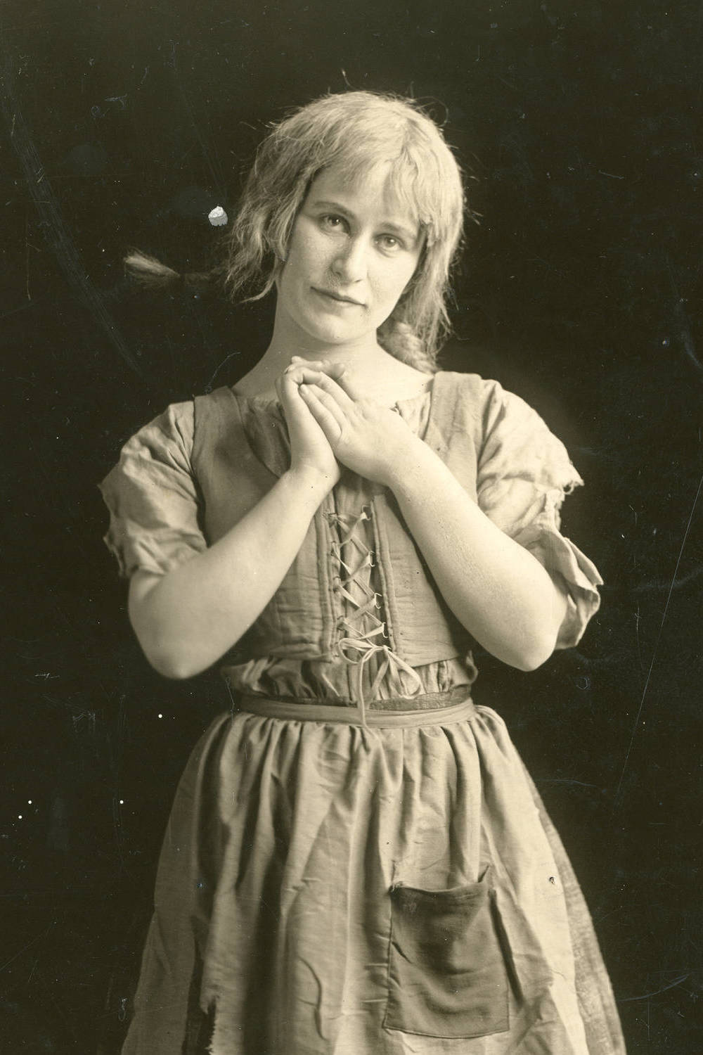 Mabel Riegelman, opera singer Subjects: singers, opera and operetta